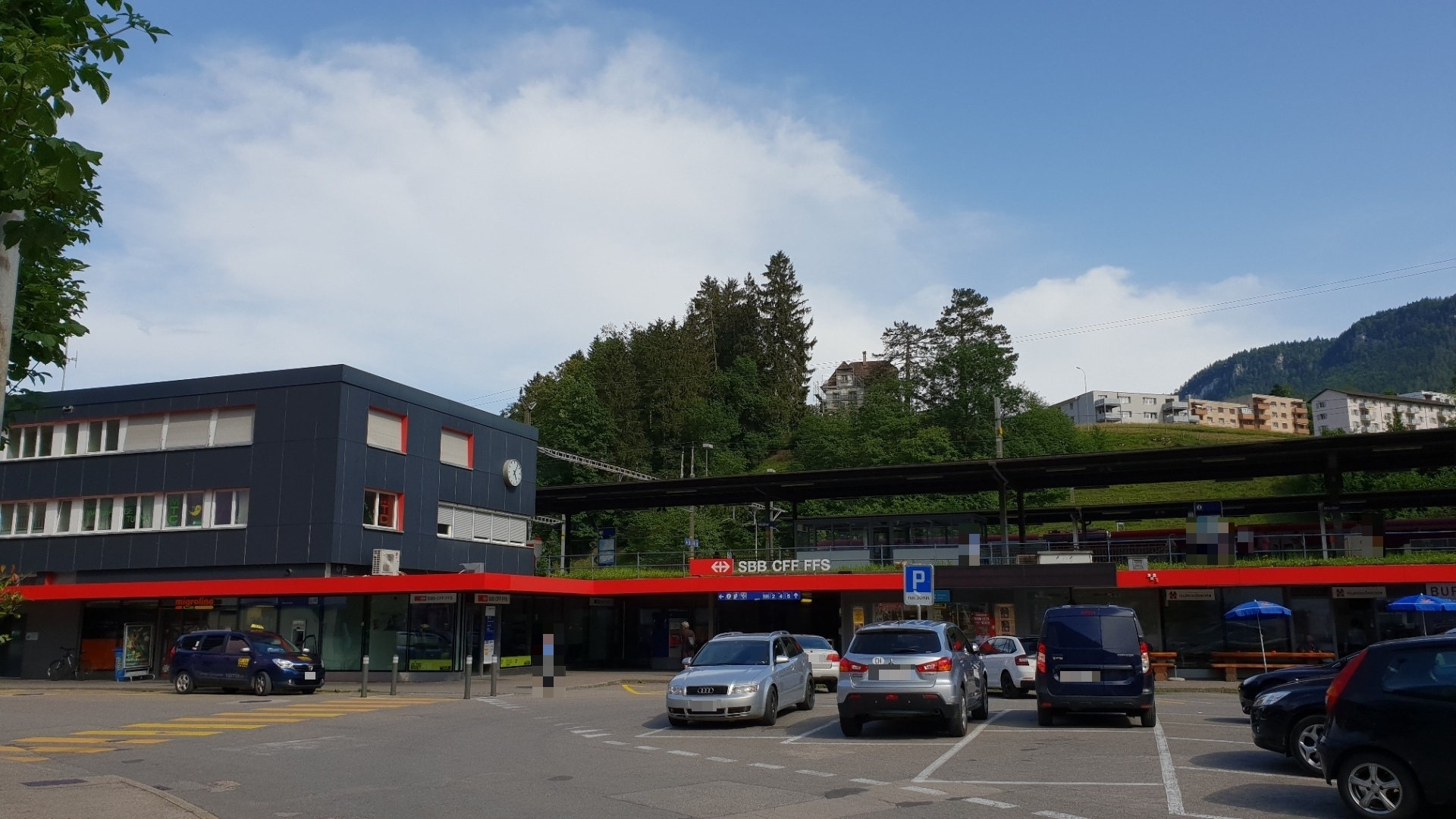 Moutier railway station in Moutier, Bern, Switzerland, in 2018.